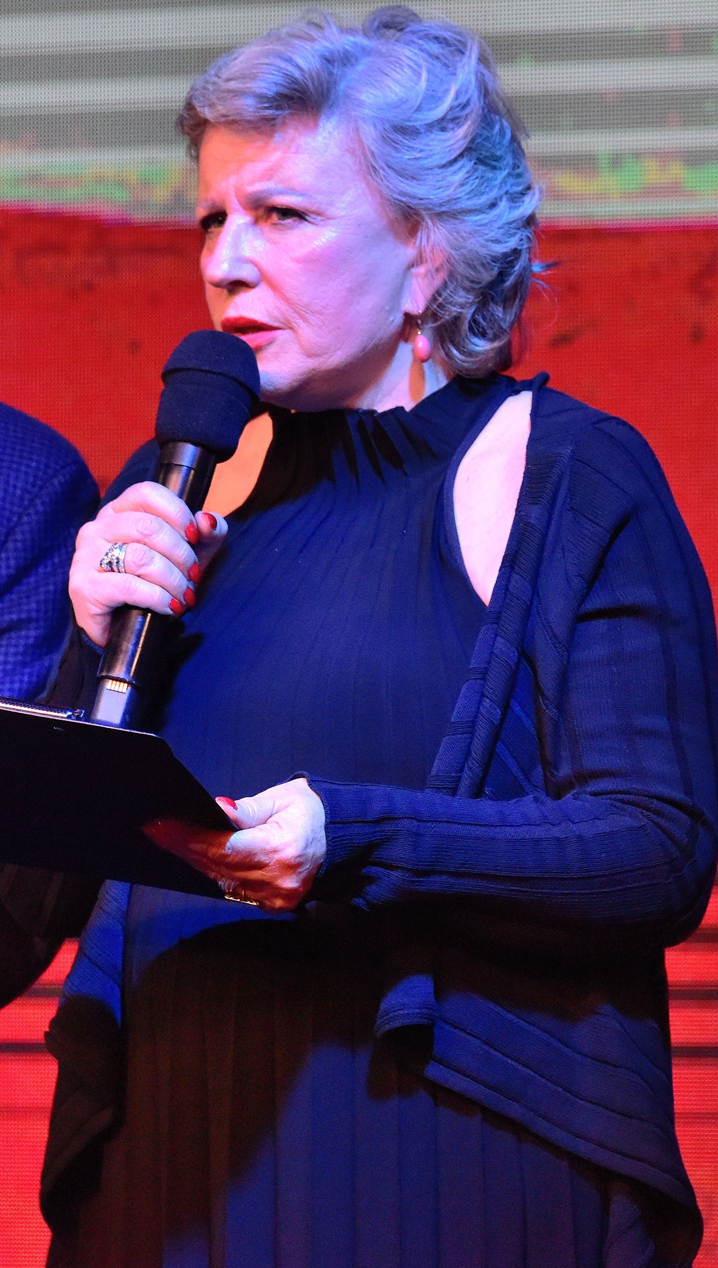 Krystyna Janda speaking at the Voters' Evening in Warsaw, 2019